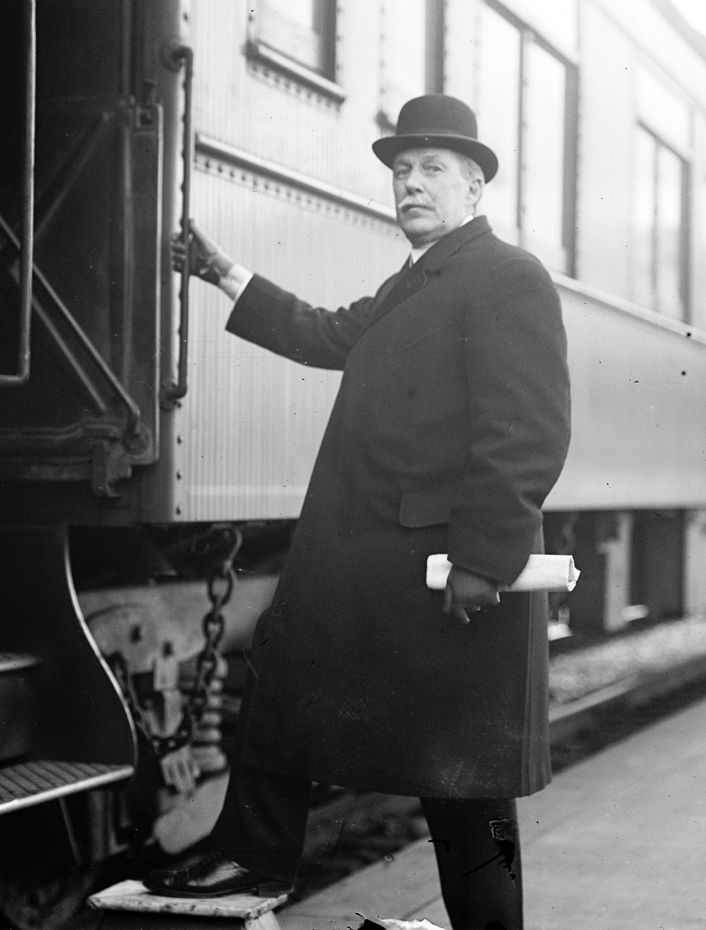 Arsène Pujo, US Representative from Louisiana